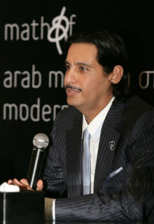 Image of Sheikh Hassan bin Mohamed bin Ali Al Thani